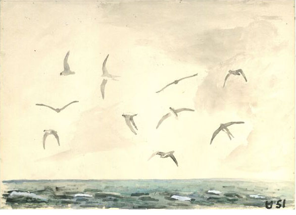 HAL JOS TERNS SYLT